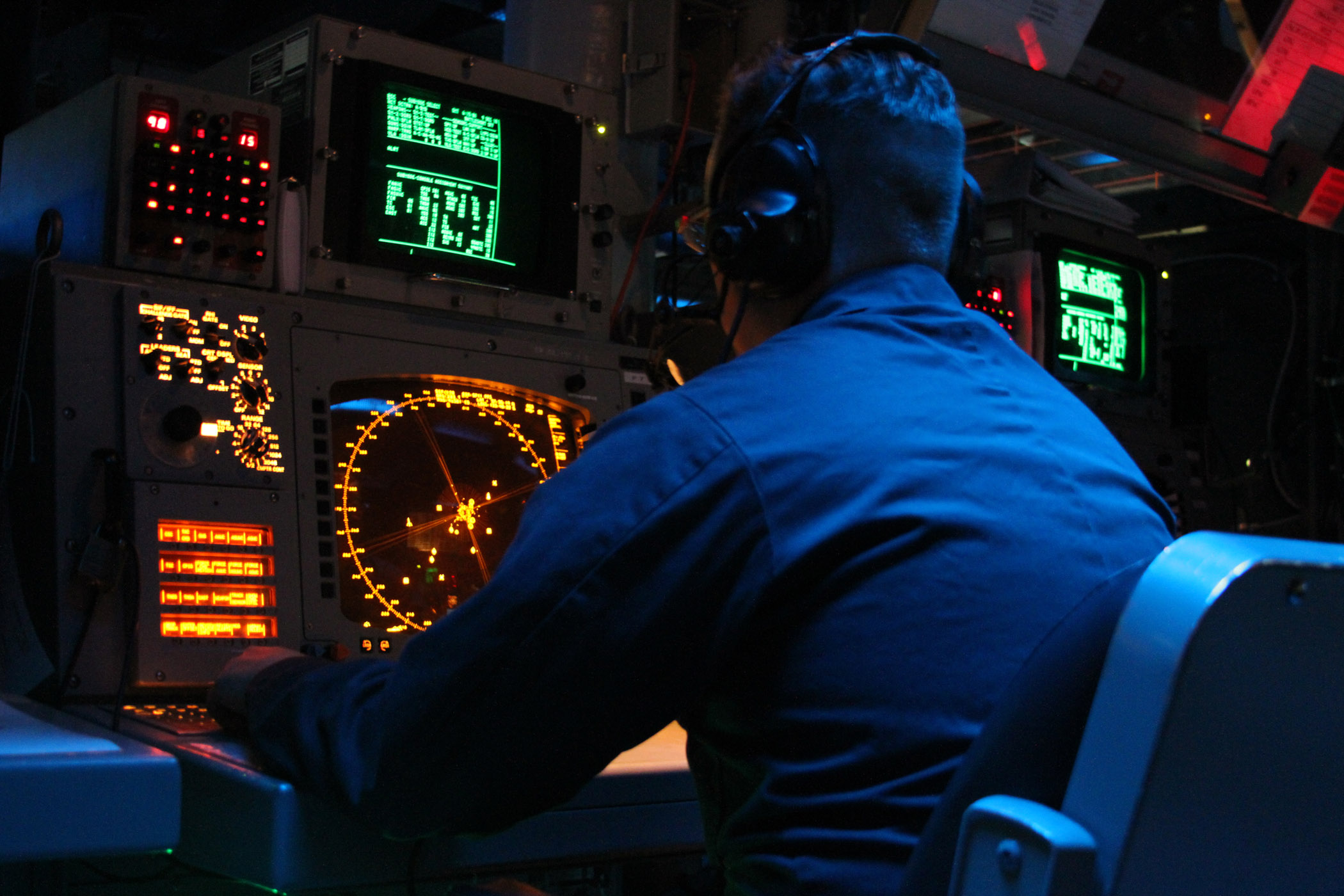 Fire Controlman 2nd Class Matthew E. Bell mans a SPY-1B(V) radar console in the Combat Information Center aboard the guided-missile cruiser USS Shiloh (CG 67). Shiloh is participating in exercise Keen Sword 2011 with the Japan Maritime Self-Defense Force. (U.S. Navy photo by Lt. j.g. Nelson H. Balido/Released